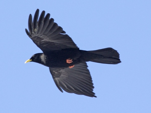 Alpine Chough (also known as the Yellow-billed Chough) seen at altitude 1600 meters above sea level at Wengen, Switzerland.